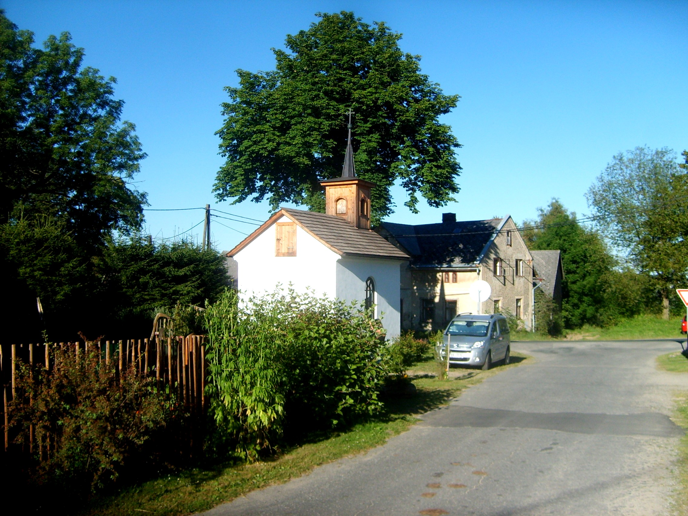 Village chapple in Krátká, Sněžné municipality, Žďár nad Sázavou District, CZ